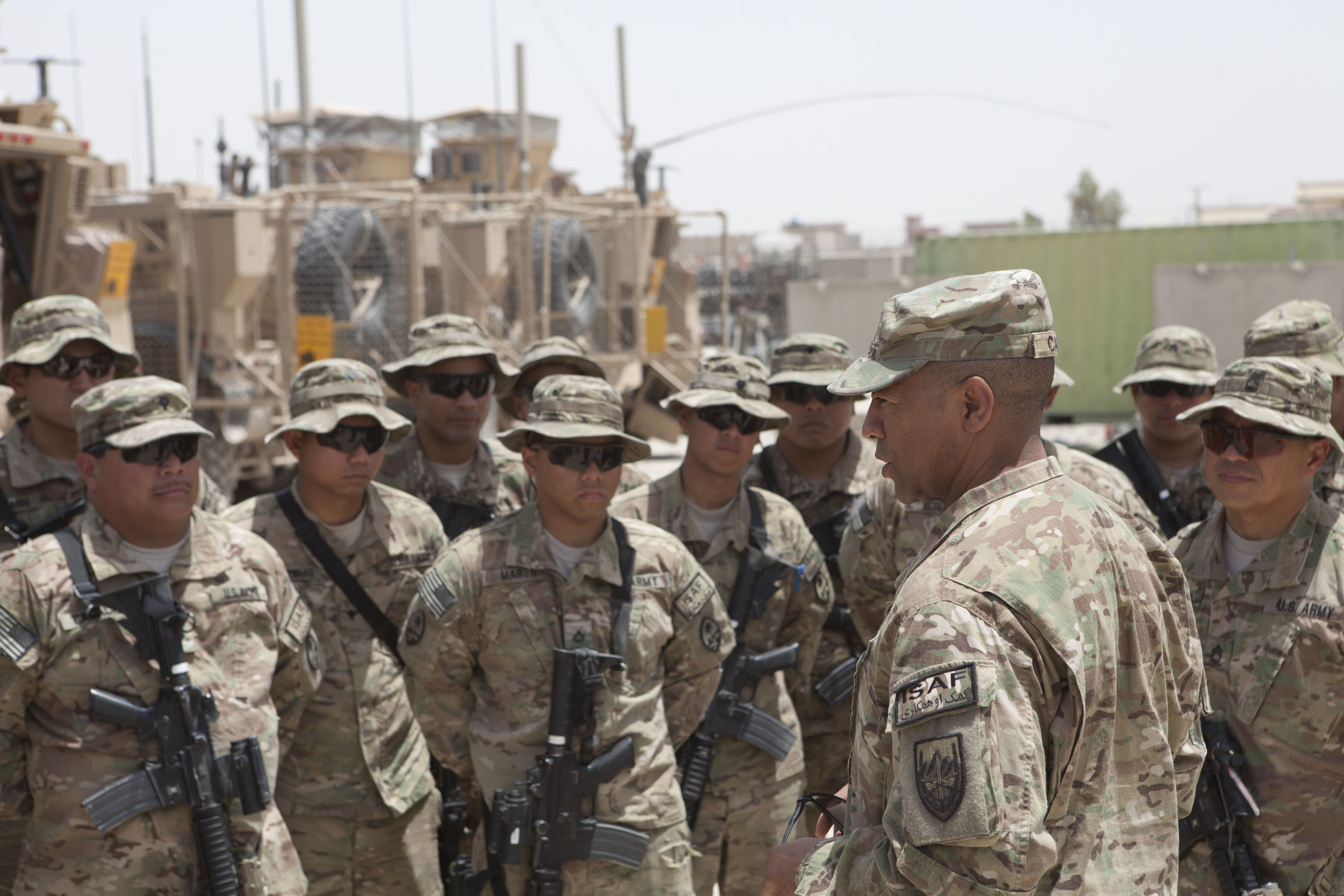 U.S. Army Command Sgt. Maj. Thomas Capel, foreground, the command sergeant major of the International Security Assistance Force, speaks with the Guam National Guard detachment in Lashkar Gah, Afghanistan, May 24, 2013.